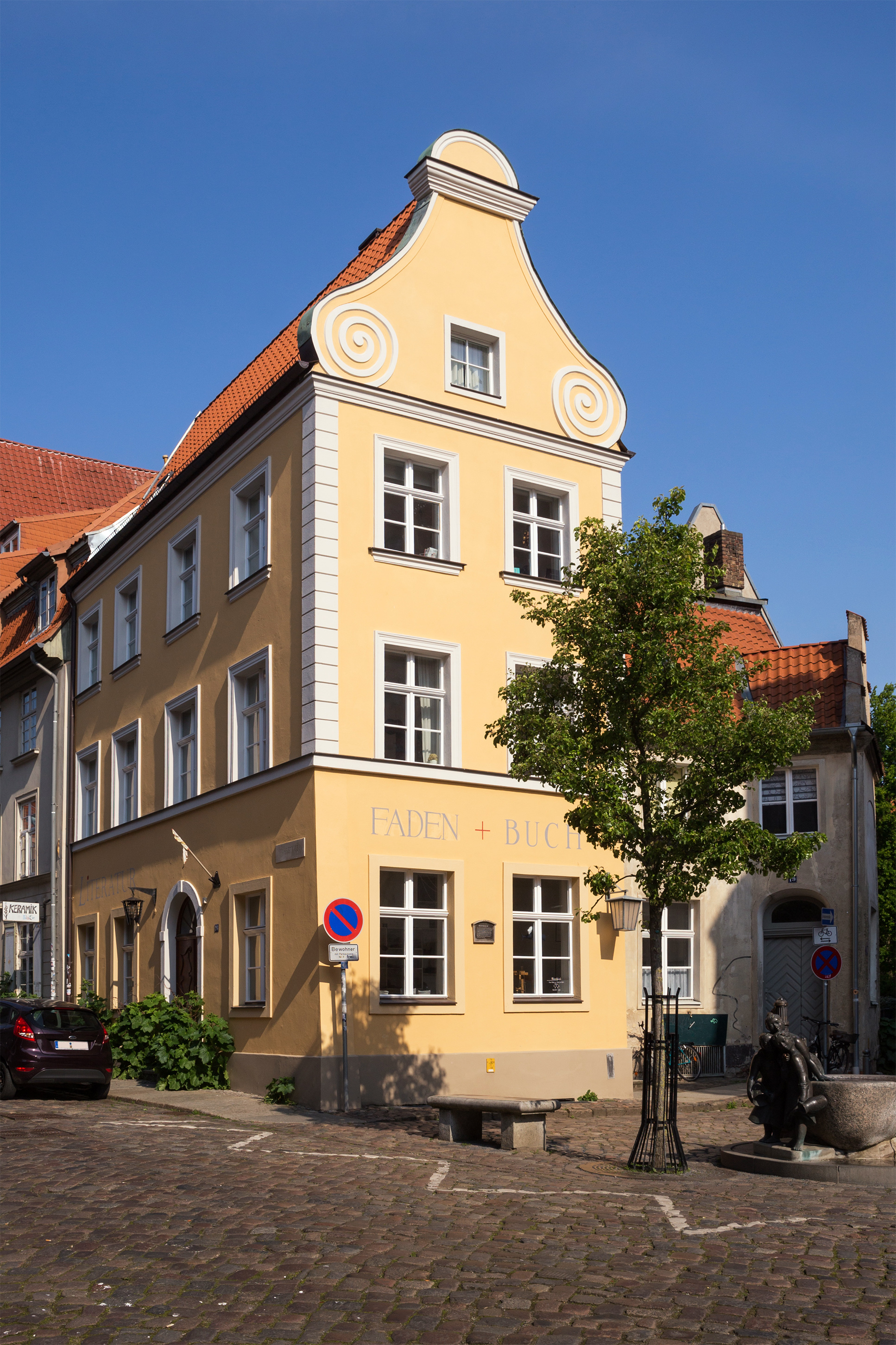 Stralsund, Fährstraße 26, cultural heritage monument